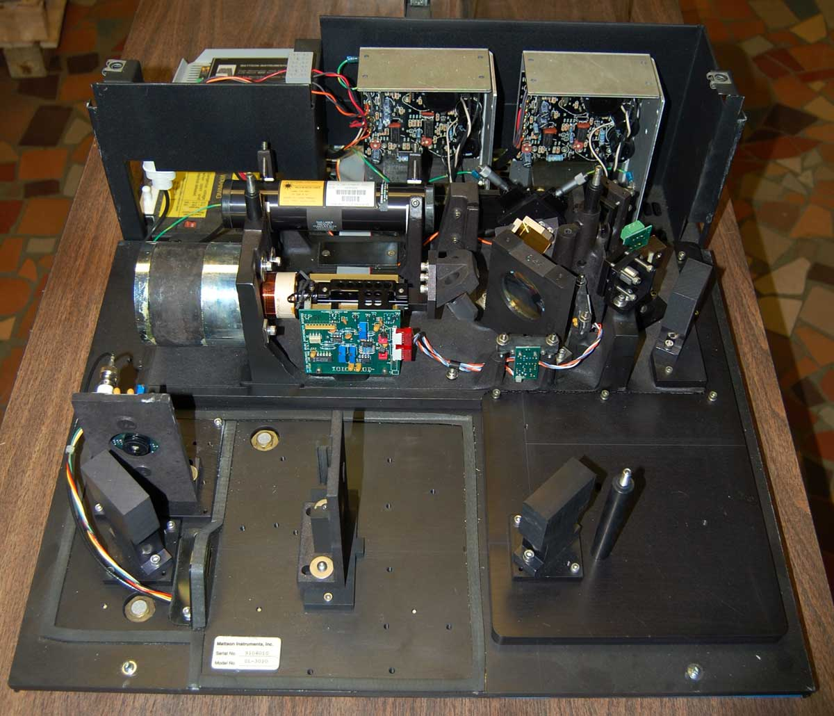 Mattson Galaxy 3000 FTIR spectrometer (interior view, purge cover off).